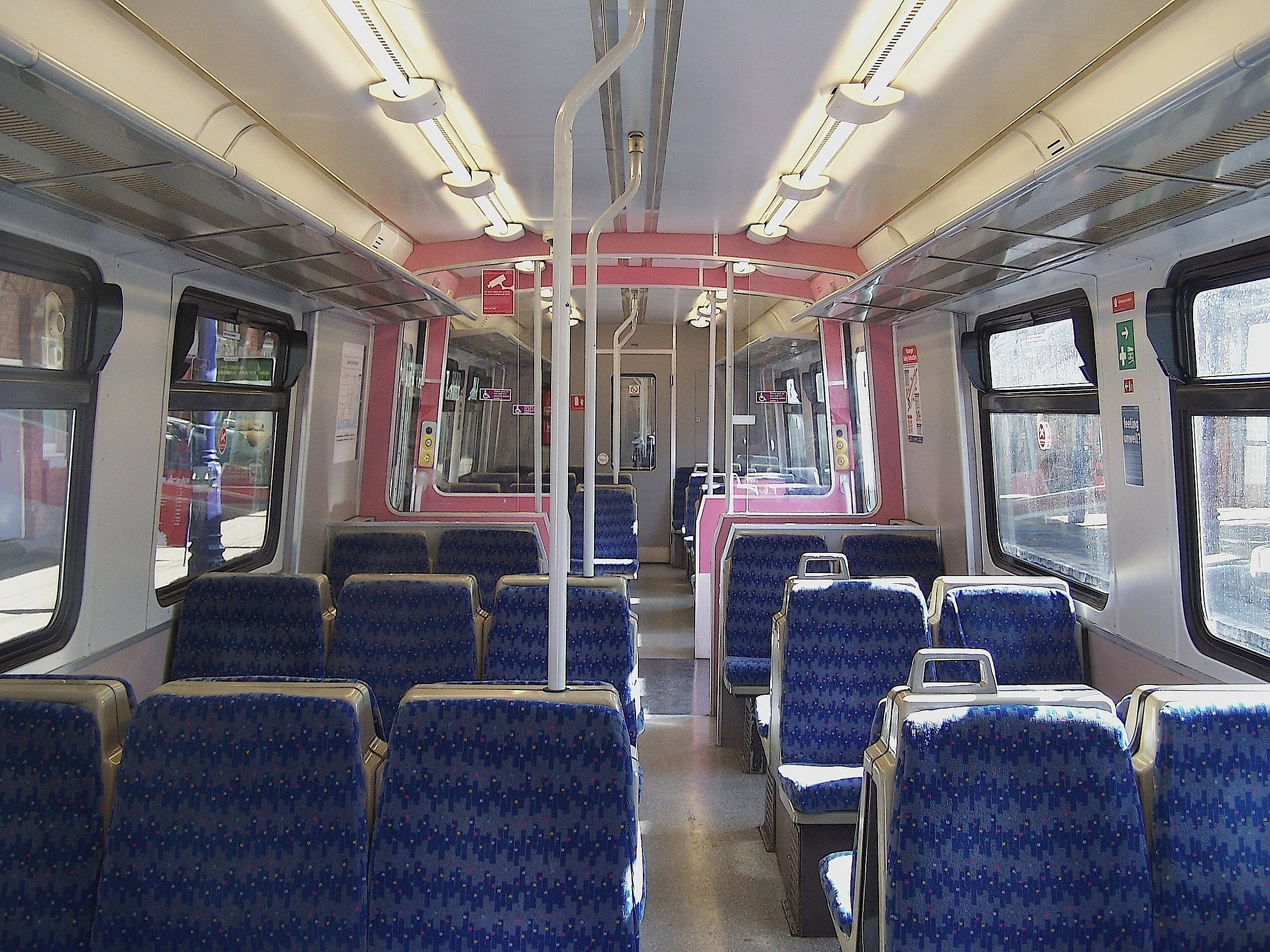 Refurbished interior of 'one' Railway Class 315